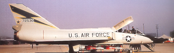 Convair F-106B-50-CO Delta Dart 57-2530 539th Fighter-Interceptor Squadron (ADC) (c/n 8-27-24) to AMARC as FN0160 Aug 25, 1987. To QF-106 (AD257). Shot down by AIM-120 Apr 24, 1997.